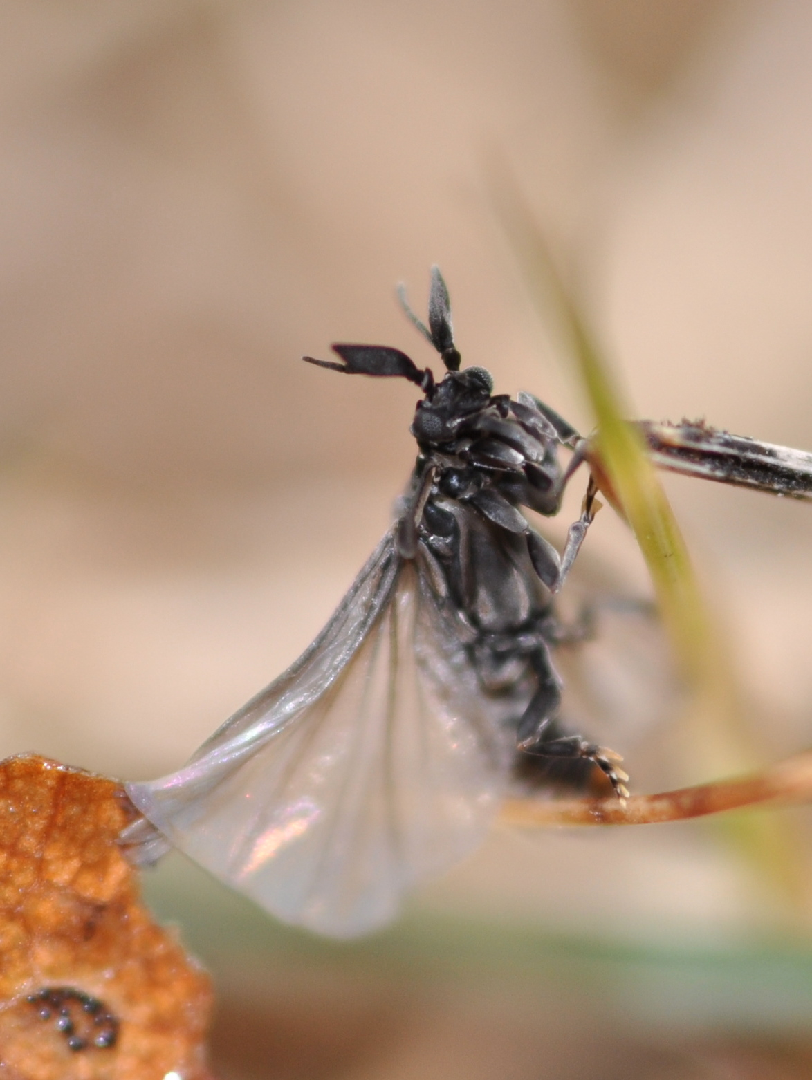 Stylops melittae male in Bahrenfeld, Hamburg.